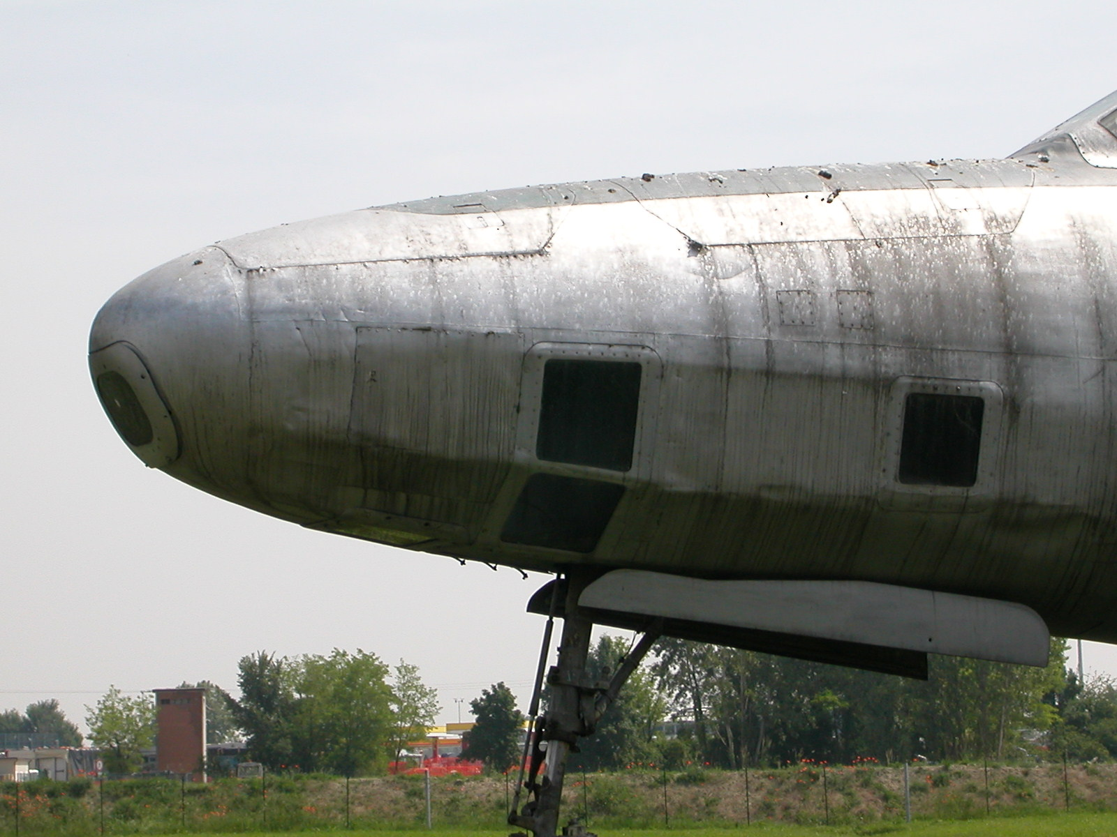 Republic RF-84 Thunderflash, nose detail